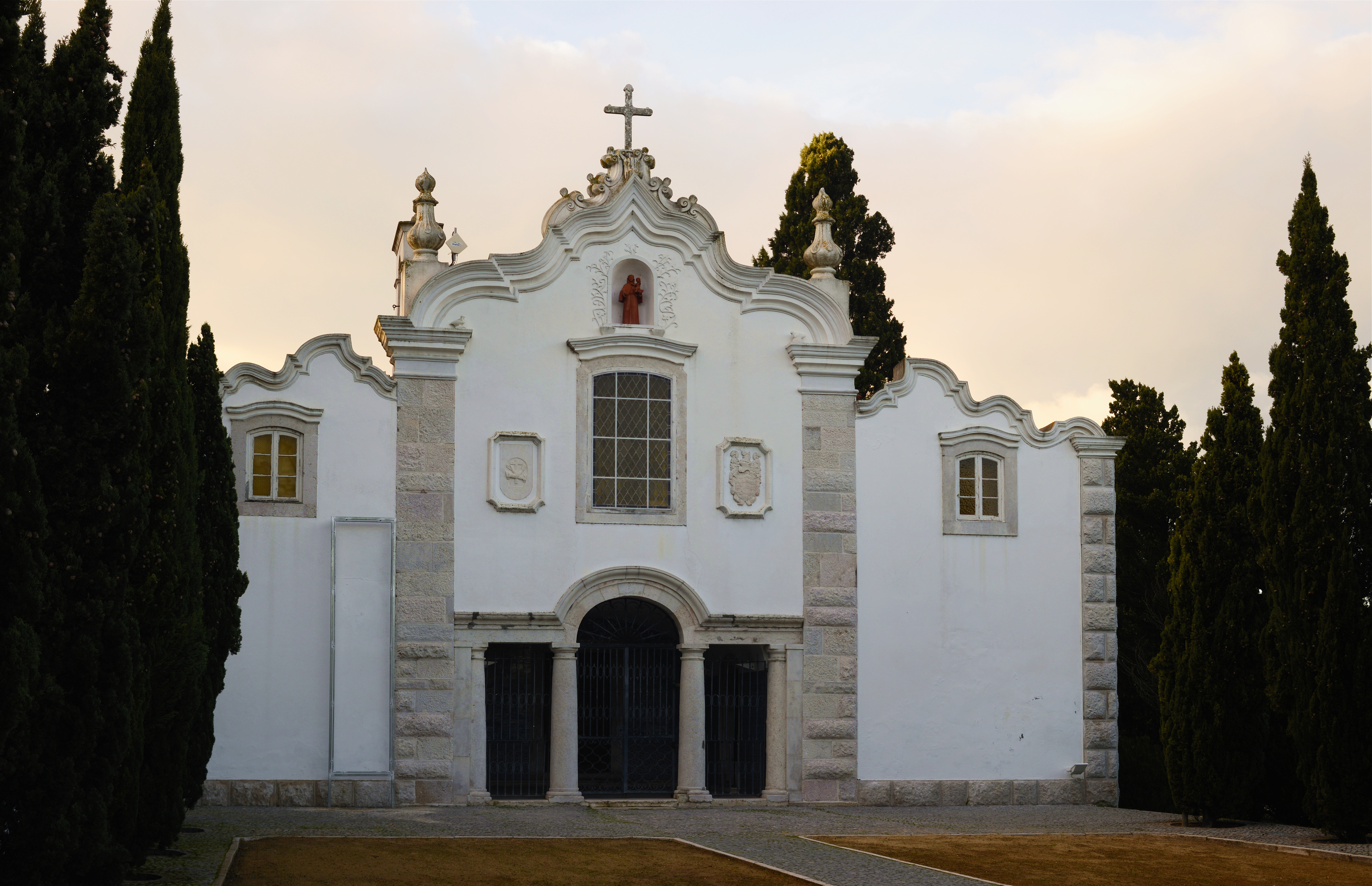 Church of the Convent of the Capuchins, Almada, Portugal